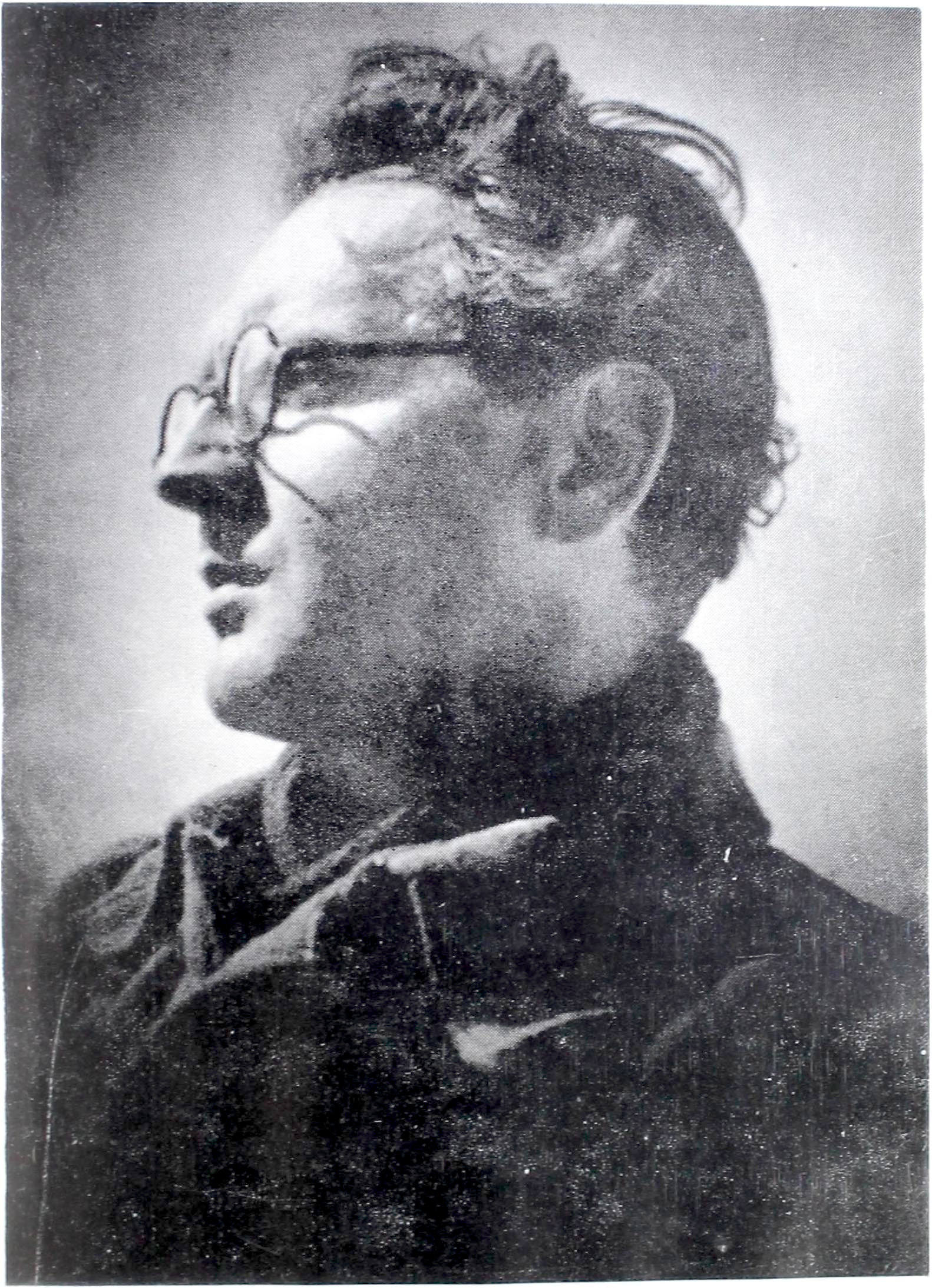 Veselin Masleša (Serbian Cyrillic: Веселин Маслеша) (April 20, 1906 - June 14, 1943) , Bosnian Serb writer, activist and Yugoslav Partisan